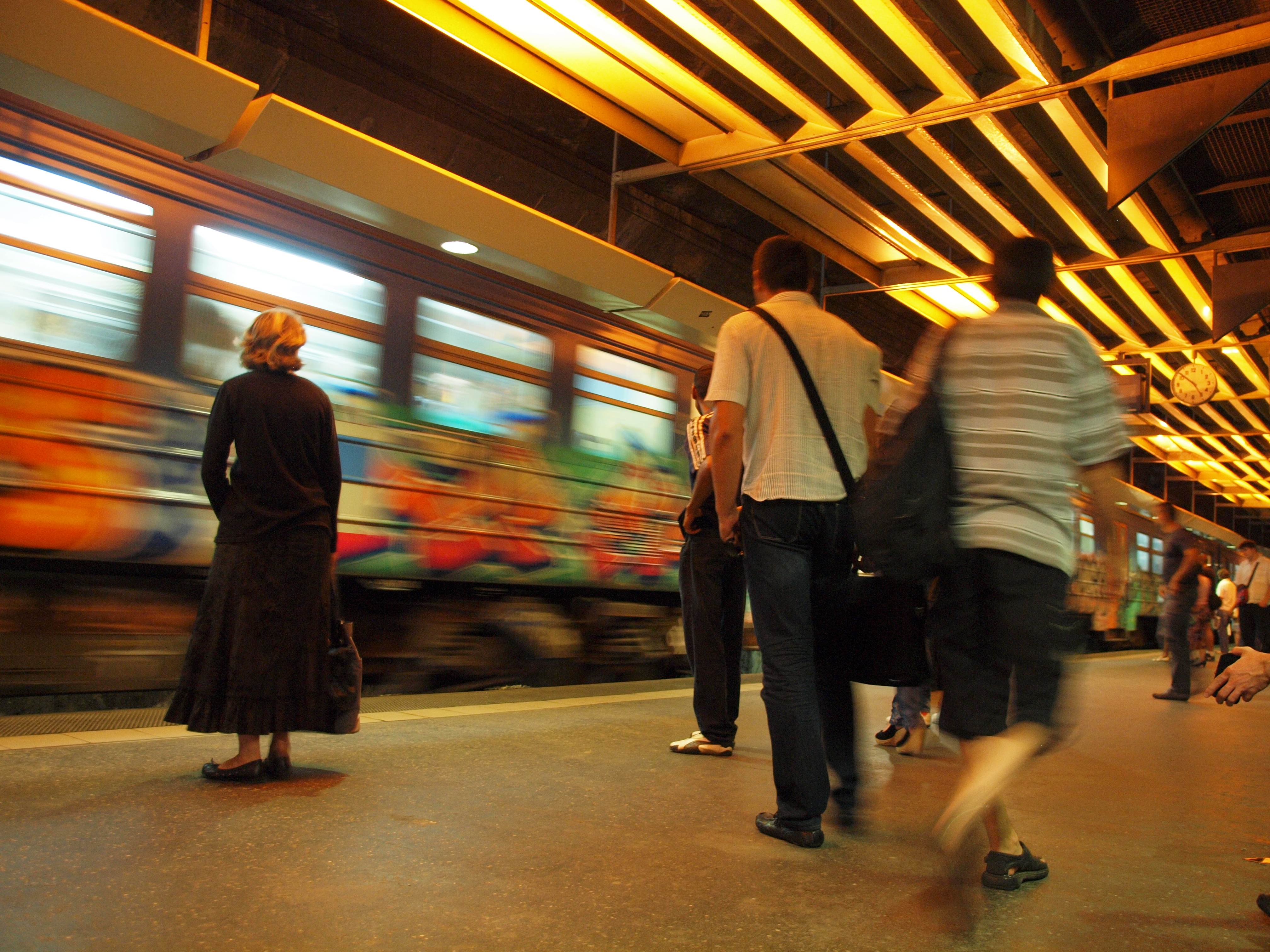 Undeground rail station Karađorđev Park in Belgrade, Serbia